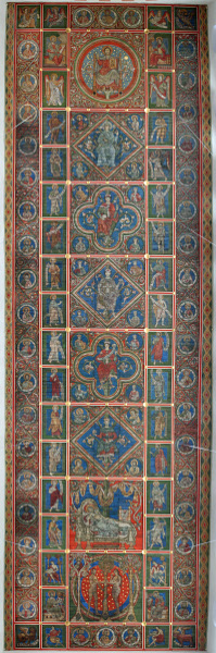 Painted wooden ceiling of St. Michael's Church in Hildesheim Germany. The he painted wooden ceiling (around 1230) is most famous of the Church's interior. It shows the genealogical tree of Jesus Christ